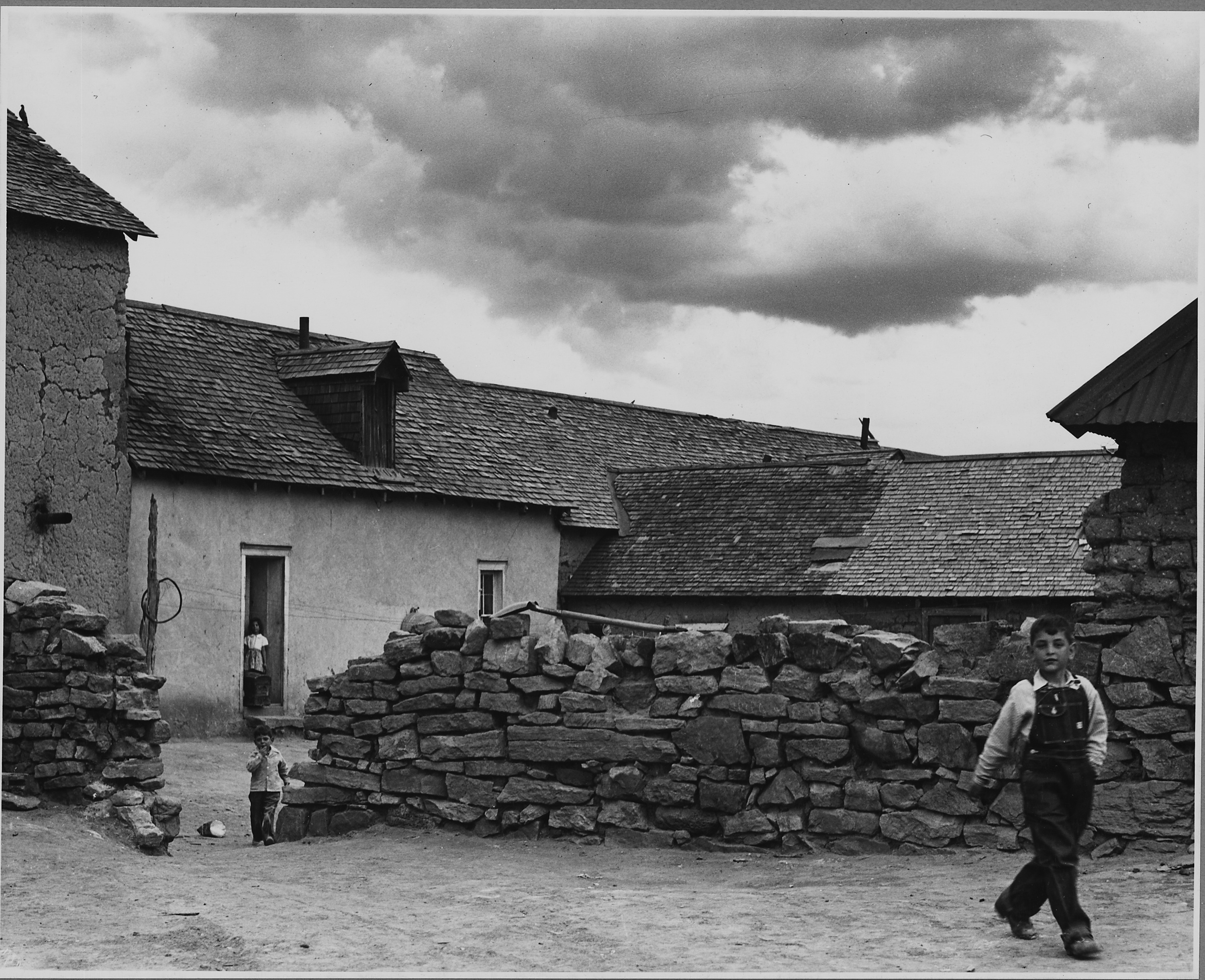 Scope and content: Full caption reads as follows: El Cerrito, San Miguel County, New Mexico. Buildings are of many different shapes and sizes. Notice how many of them have pitched roofs instead of the original flat ones. Almost all the walls are made of stone with adobe masonry and are usually coated with adobe plaster. However, some of the oldest houses (which are still in use today) were built entirely of adobe bricks. All in all, these homes are neat and in fairly good repair.